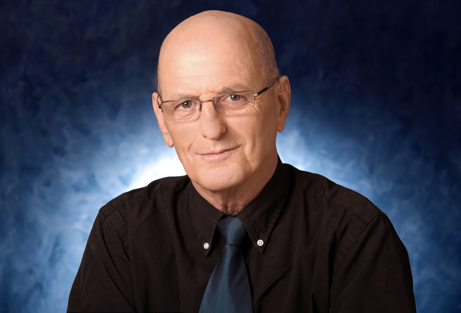 Israeli general and minister Yossi Peled